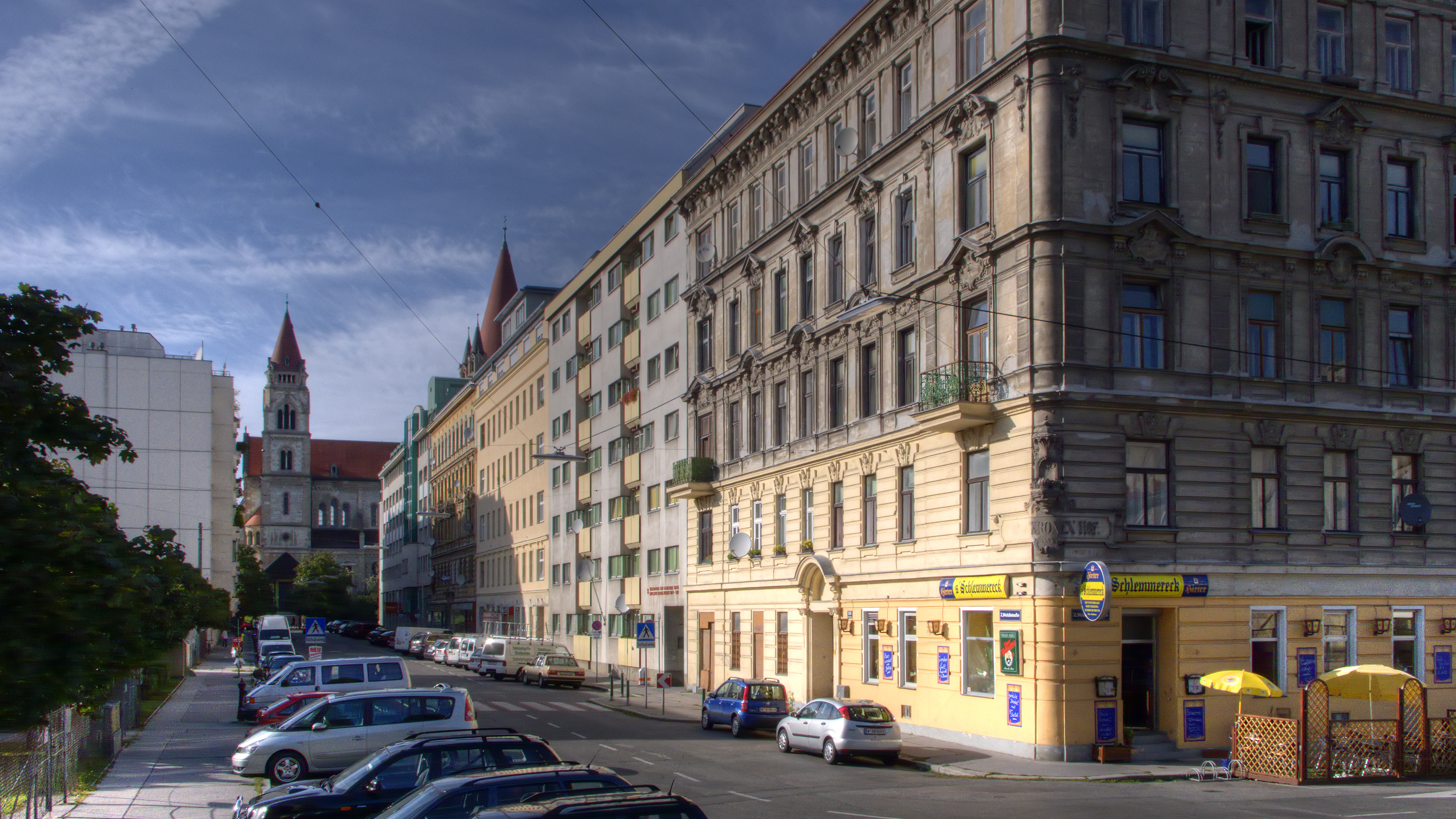 Wehlistraße in Vienna / Leopoldstadt